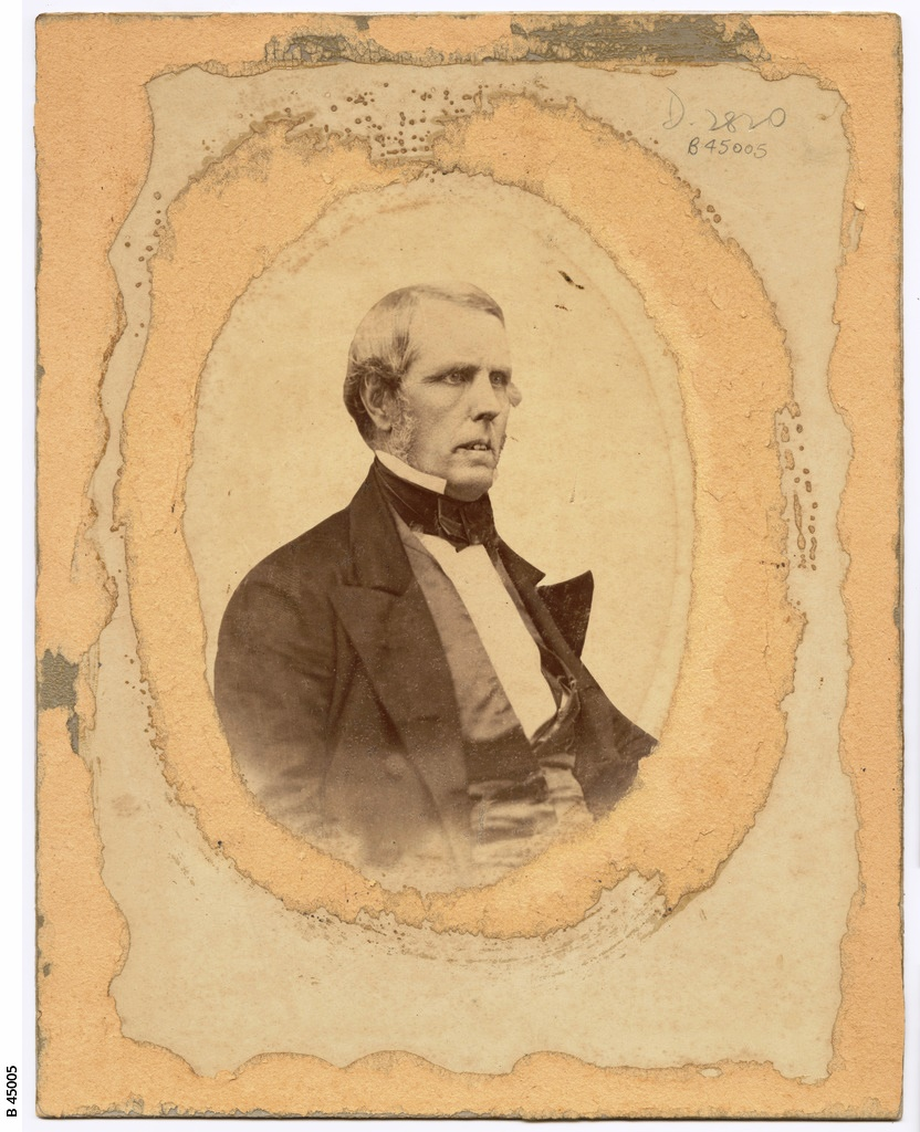 Photographic portrait taken c.1850.